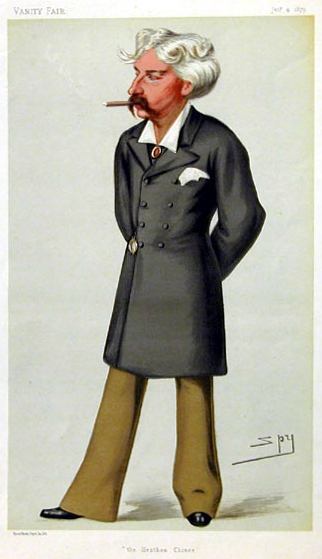 Caricature of Bret Harte. Caption read "the Heathen Chinee".